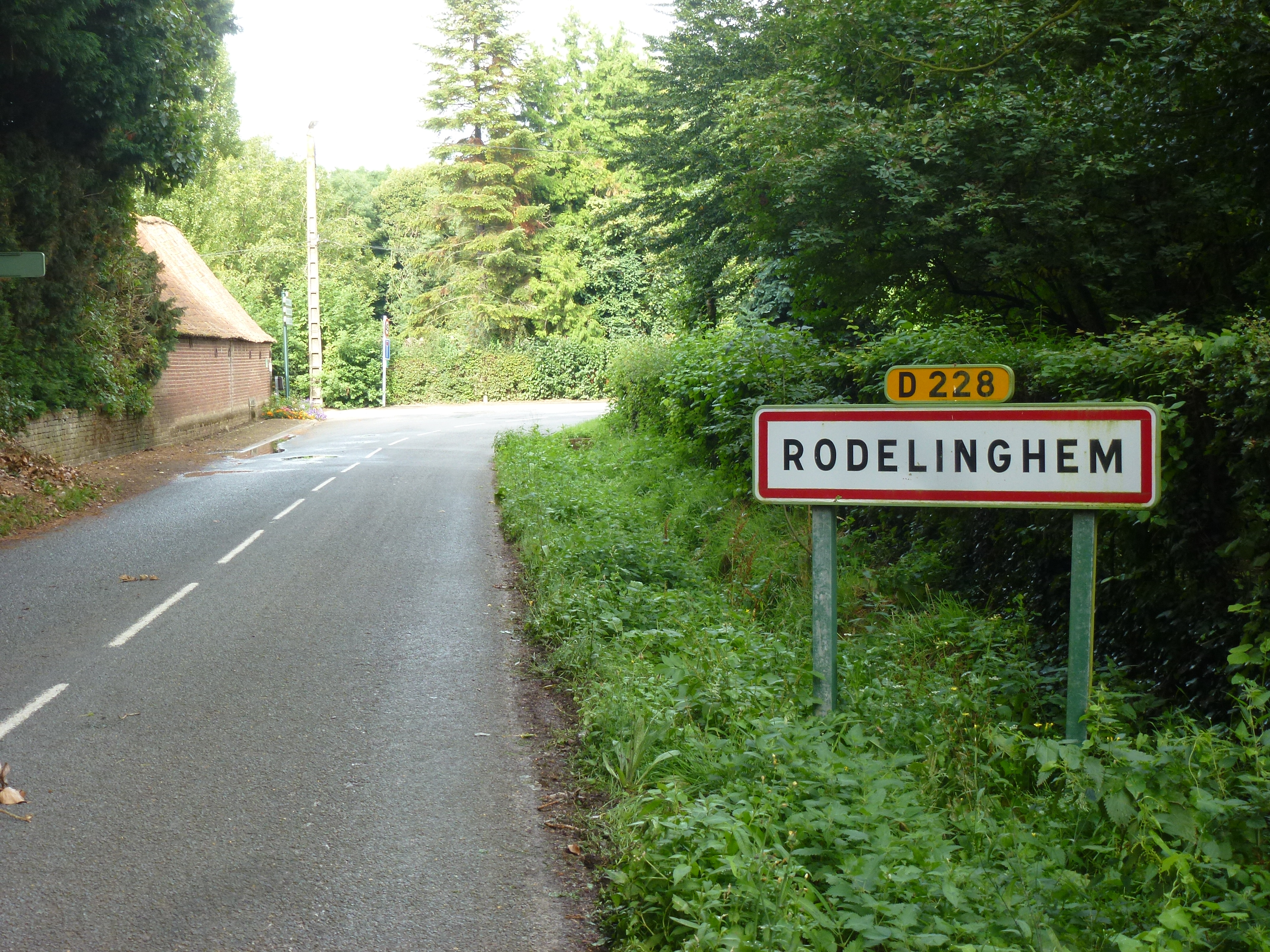 Rodelinghem (Pas-de-Calais) city limit sign